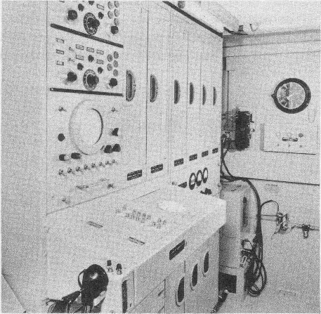 Coder decoder group AN/MSQ-18 (ao in use Nike Hercules system for command and control on battery level).